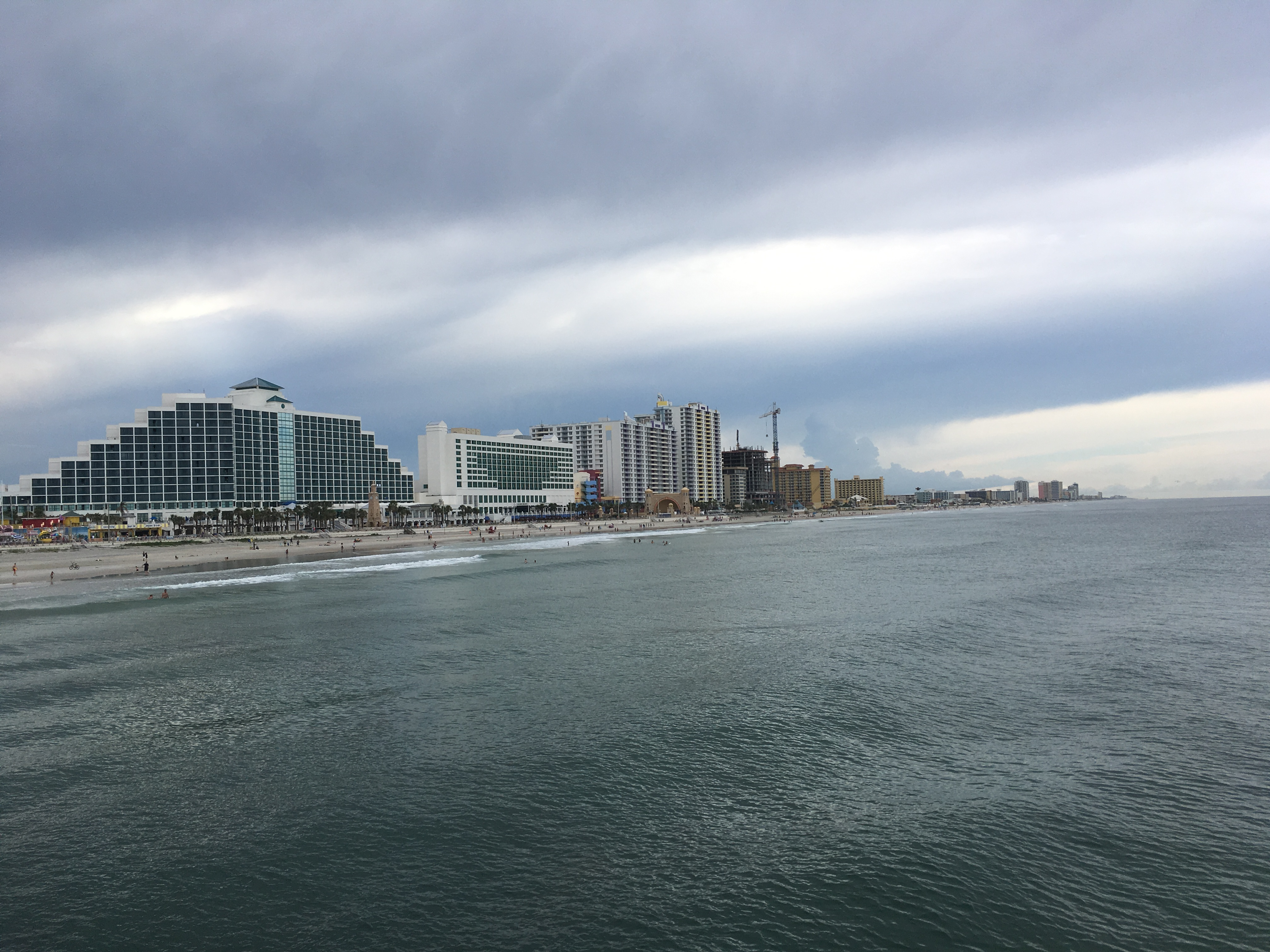 A view of the beach in Daytona Beach, Florida looking north from the pier